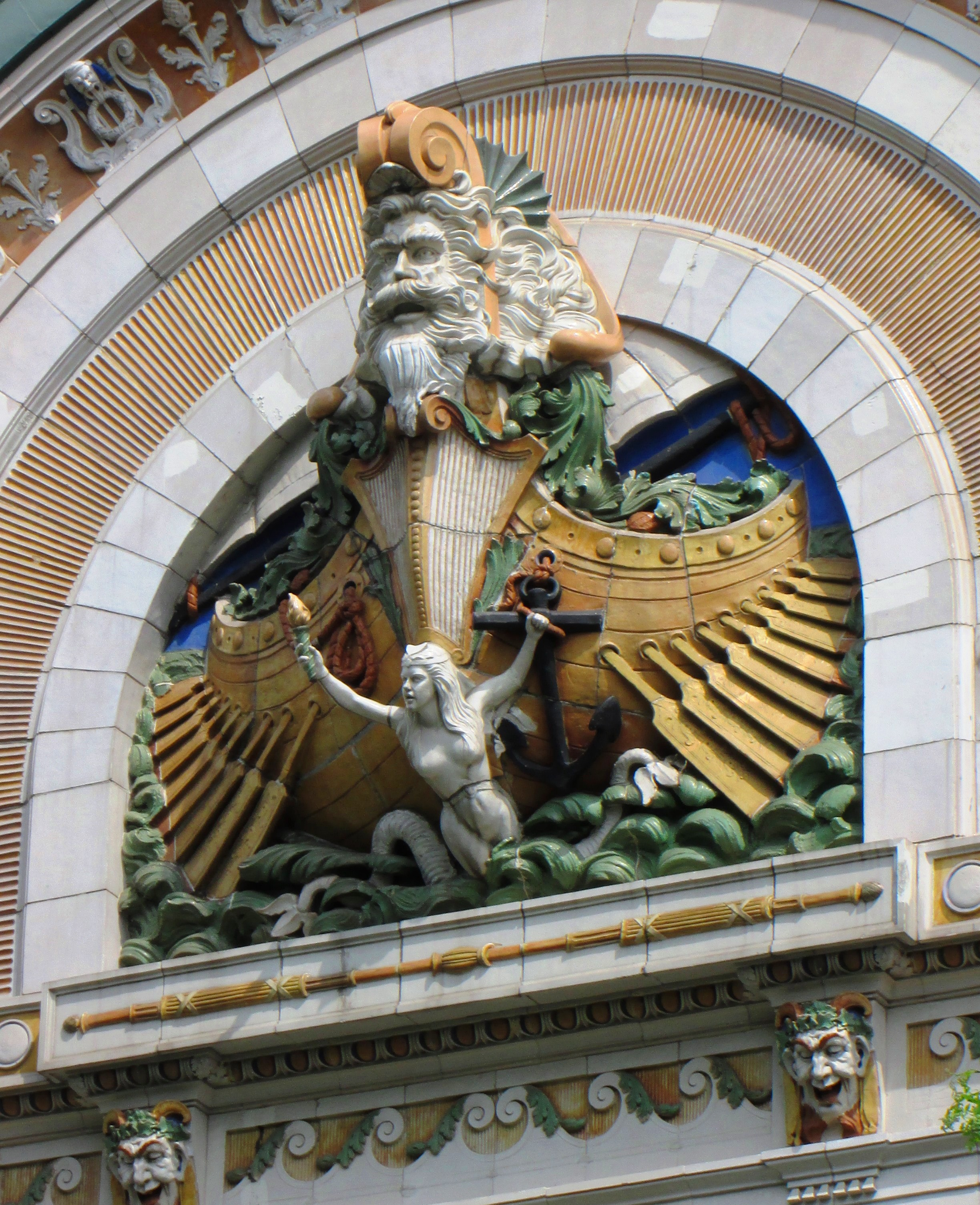 =The Audubon Theatre and Ballroom, generally referred to as the Audubon Ballroom, was a theatre and ballroom located at 3490 Broadway at West 165th Street in the Washington Heights neighborhood of Manhattan, New York City. It was built in 1912 and was designed by Thomas W. Lamb. The ballroom is noted for being the site of the assassination of Malcolm X's on February 21, 1965. It has been used as a vaudeville house, a movie theatre, a synagogue, and a meeting place for trade unions and political activists. It is currently Columbia University Medical Center's Lasker Biomedical Research Center of the Audubon Business and Technology Center and the Malcolm X and Dr. Betty Shabazz Memorial and Educational Center.